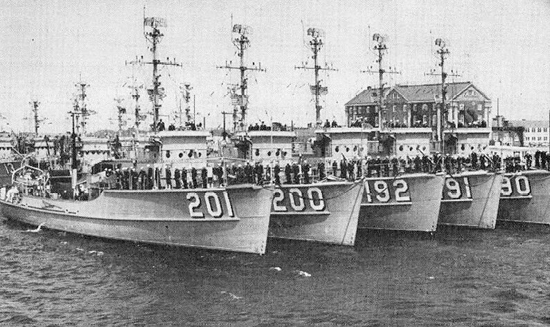 The U.S. Navy coastal minesweepers USS Shrike (MSC-201), USS Redwing (MSC-200), USS Hummingbird (MSC-192), USS Frigate Bird (MSC-191), and USS Falcon (MSC-190) at Charleston, South Carolina (USA), in 1956.